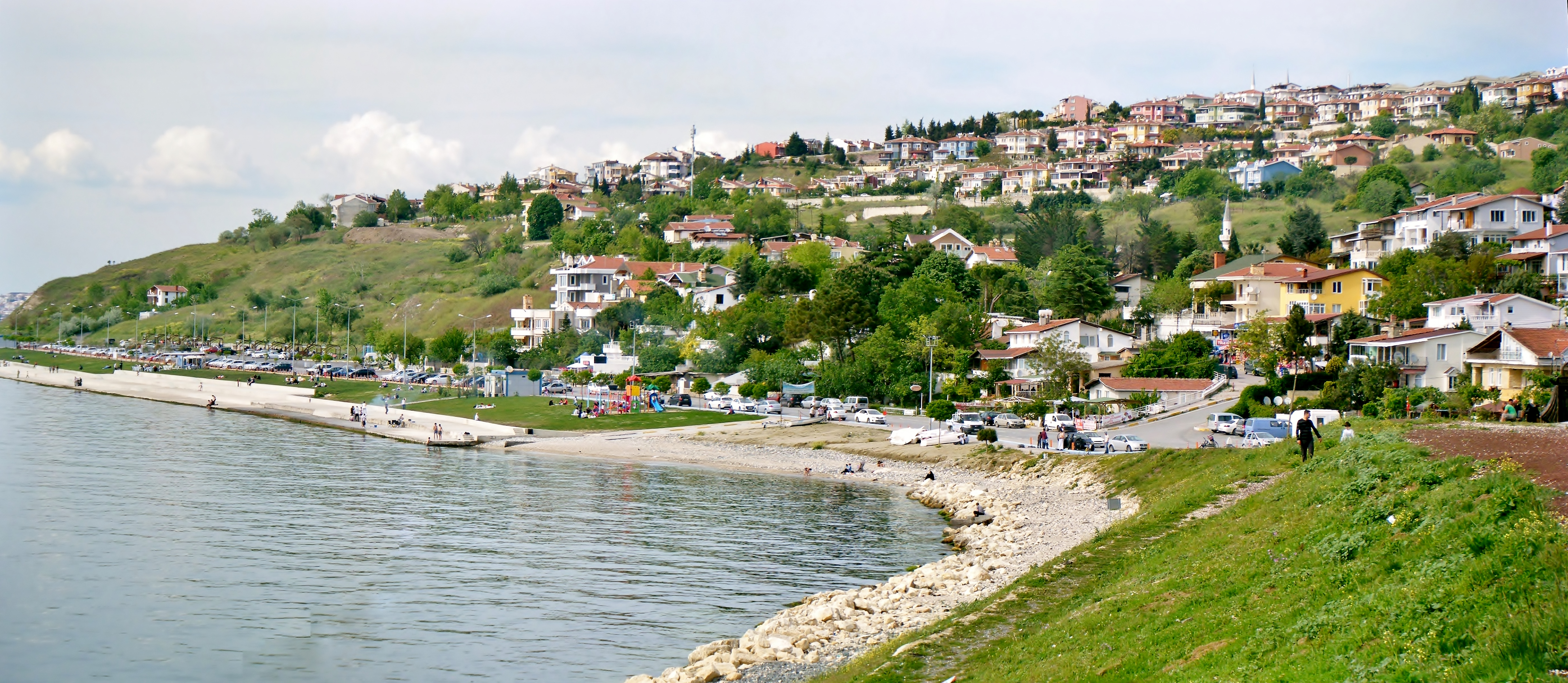 holiday destionation near / in istanbul. Beylikdüzü district of Istanbul waterfront, seaside, shore, coast. Beylikdüzü seashore.